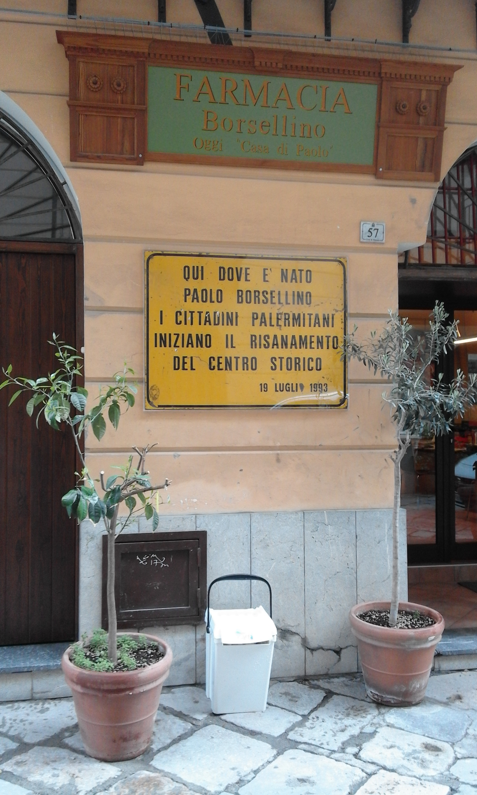 Bithplace and Family house with farmacy of the italian lawyer Paolo Borsellino in Via Vetriera, Palermo.